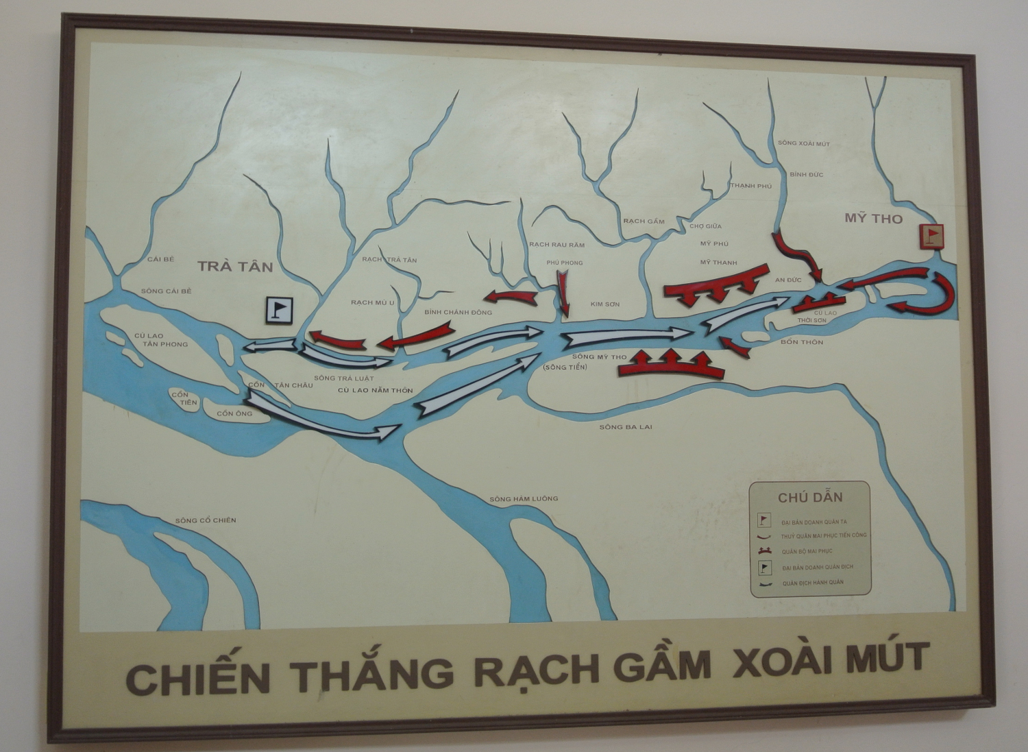 battle of Rạch Gầm - Xoài Mút ： at Quan Trung Museum TaySon district BinhDinh province Vietnam.